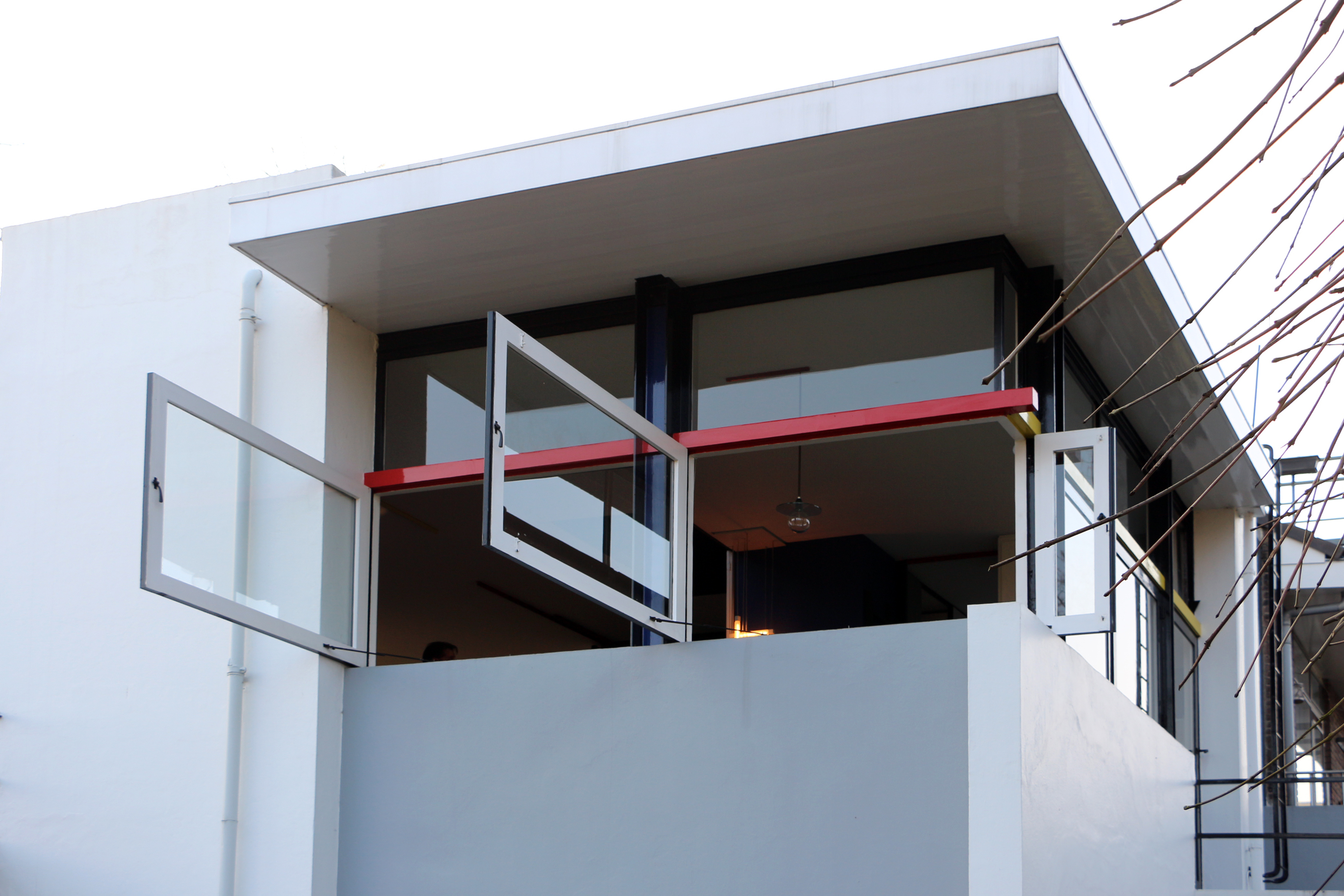 Rietveld Schröder House